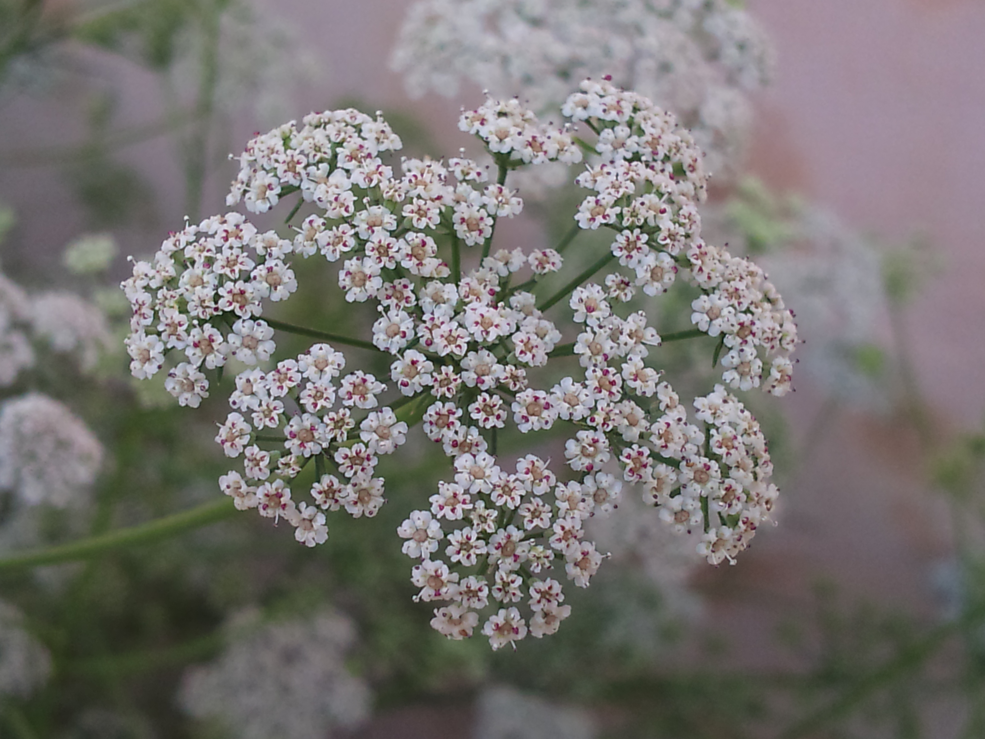 the flowers of the carom plant (ajwain in Hindi)